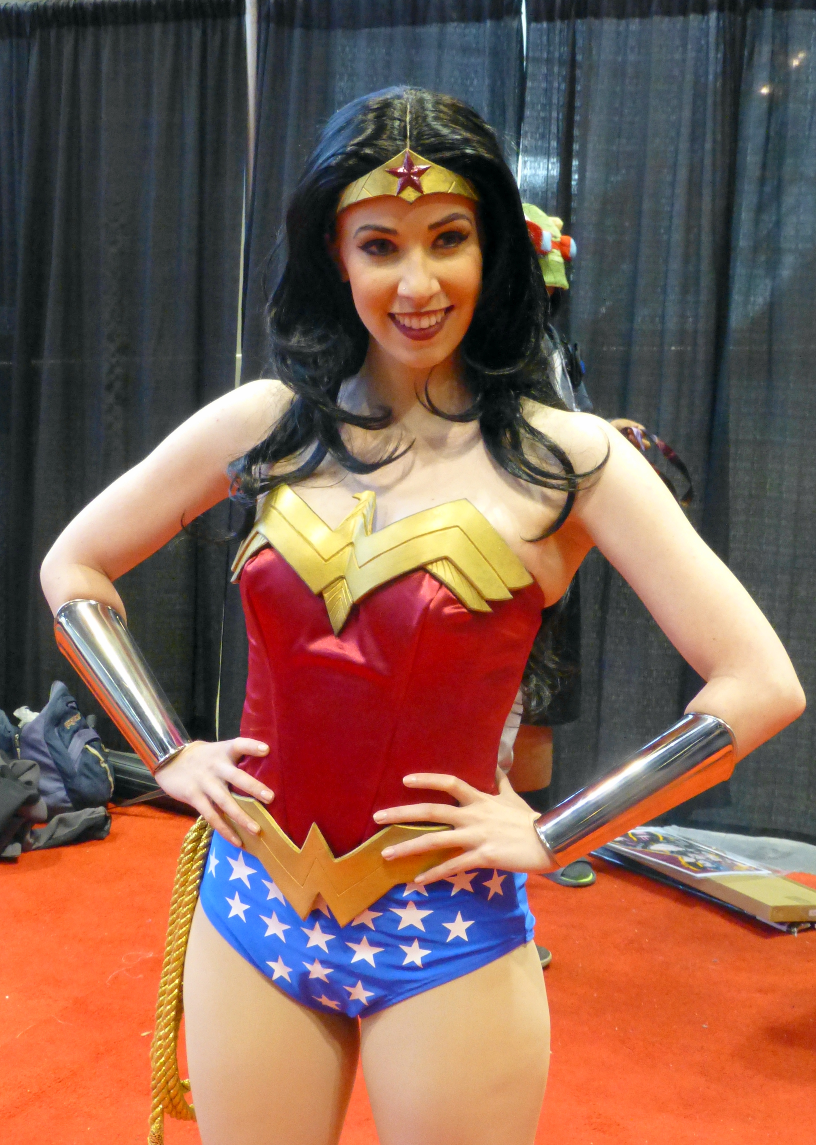 Wonder Woman Cosplay at Chicago Comic & Entertainment Expo (C2E2) 2014.